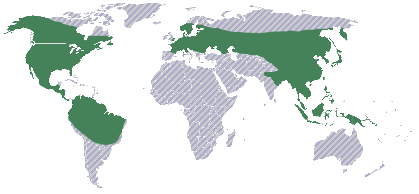 Distribution of Cypripedioideae